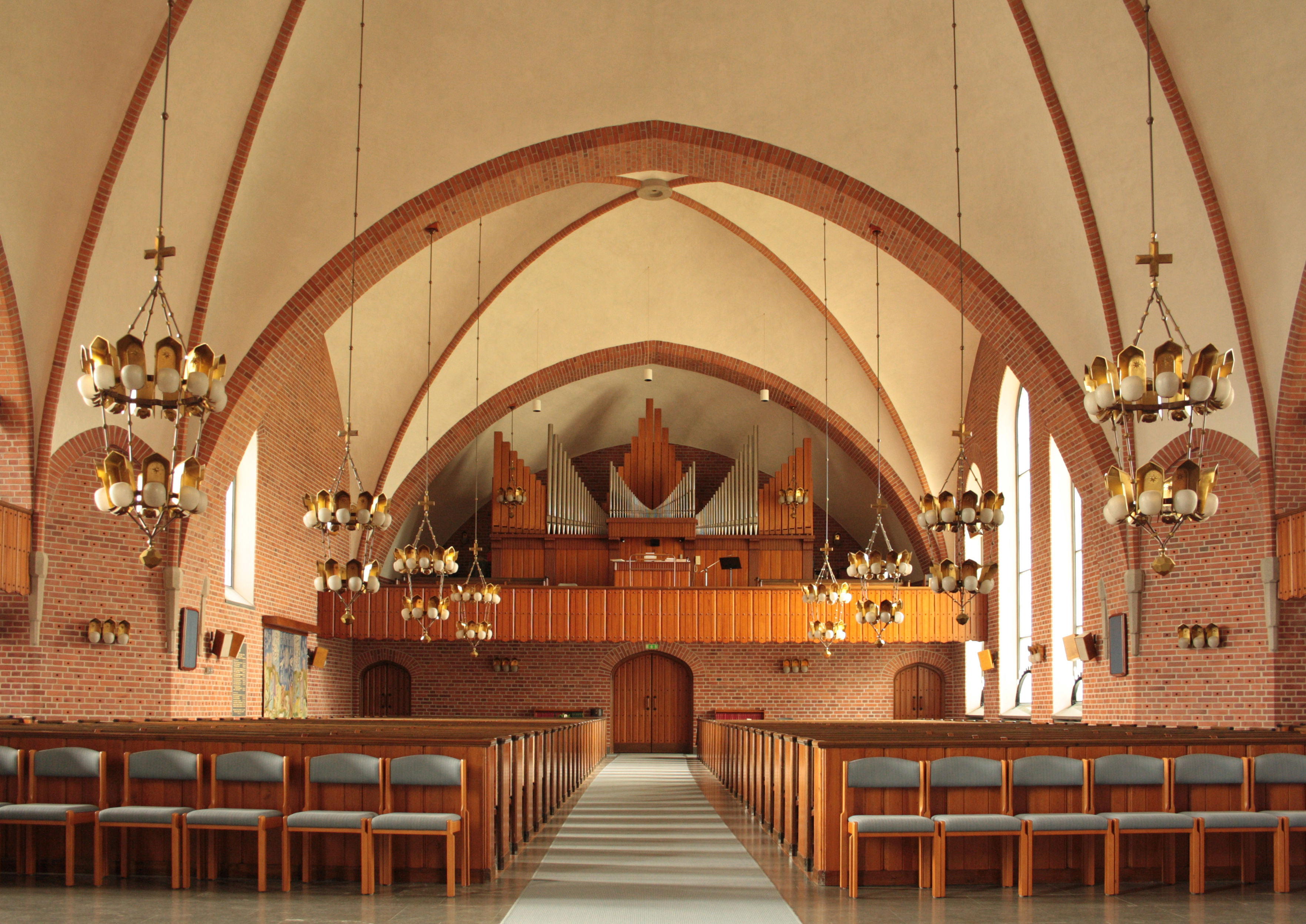 Burträsk church, Sweden. Pipe organ.